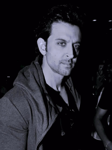 Hrithik Roshan at Stars leave for IIFA 2014 - Day 3